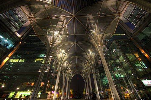 Tsinghua's Science Park, Tsinghua University, Bejing, China.